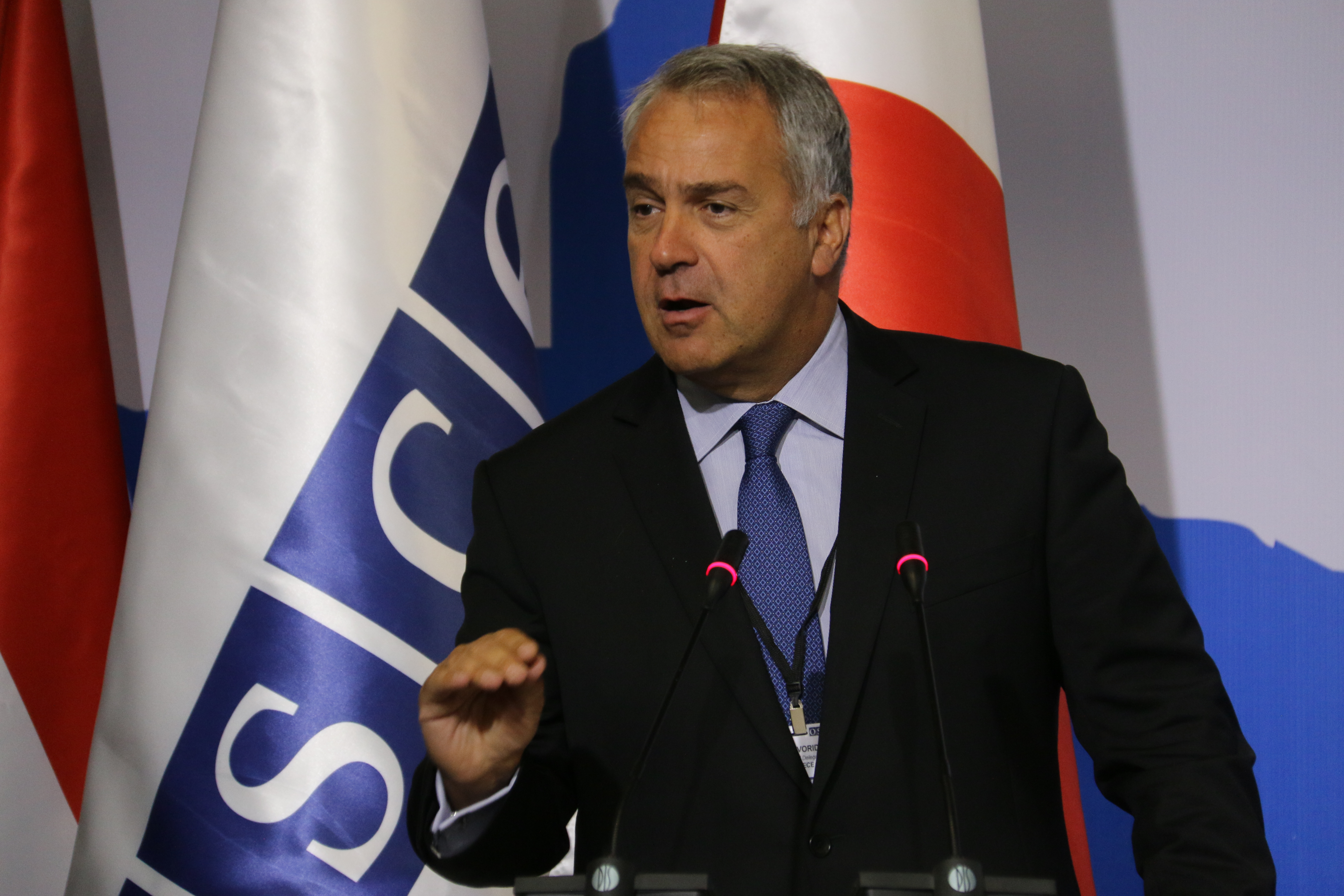 Makis Voridis (Greece) during the 2016 Annual Session of the OSCE Parliamentary Assembly.